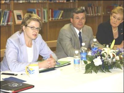 U.S. Secretary Margaret Spellings and Kentucky Governor Ernie Fletcher hold a roundtable discussion at Iroquois High School in Louisville.